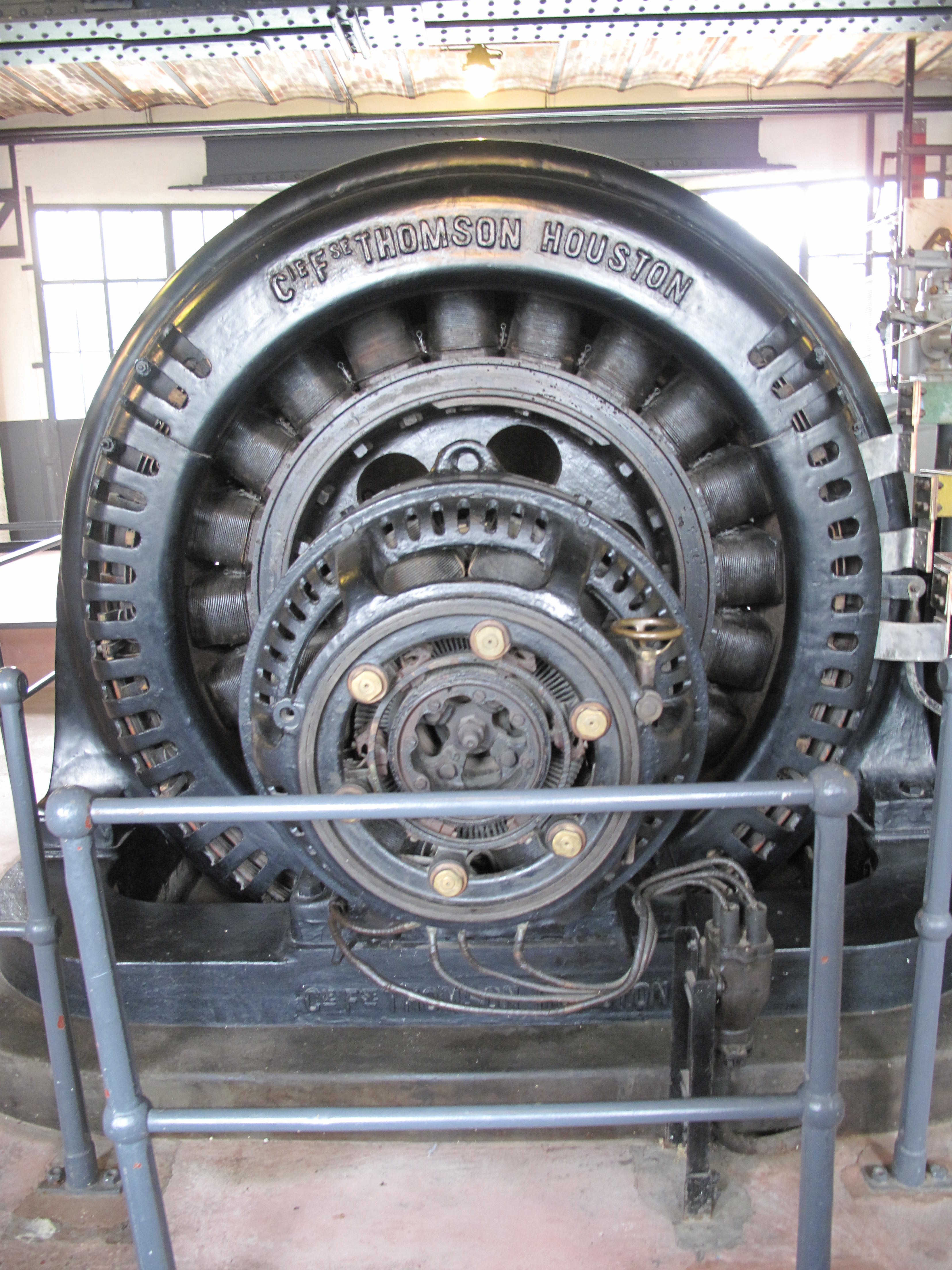 Engines preserved in the Moulin Saulnier of the chocolate factory in Noisiel (Seine-et-Marne, France).